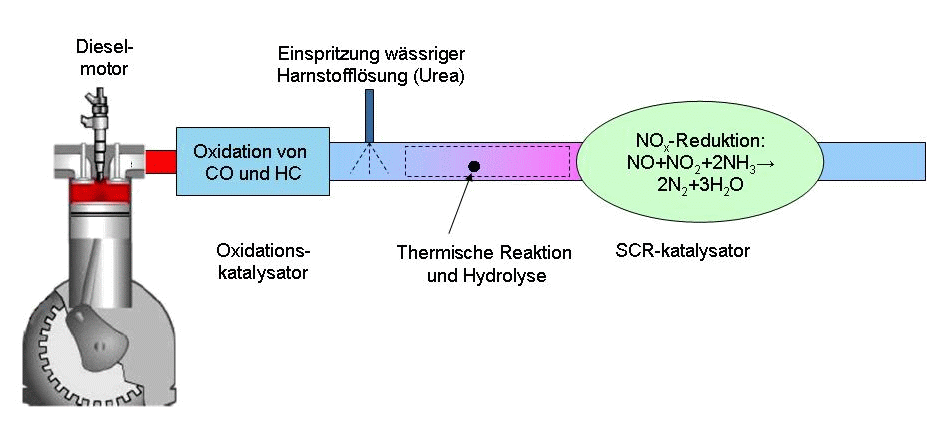 Schematic representation of the line of exhaust gas of a diesel motor with oxidation catalyst, injection of urea, and SCR catalyst. Please note that german words are translated with 'notes' in the image.